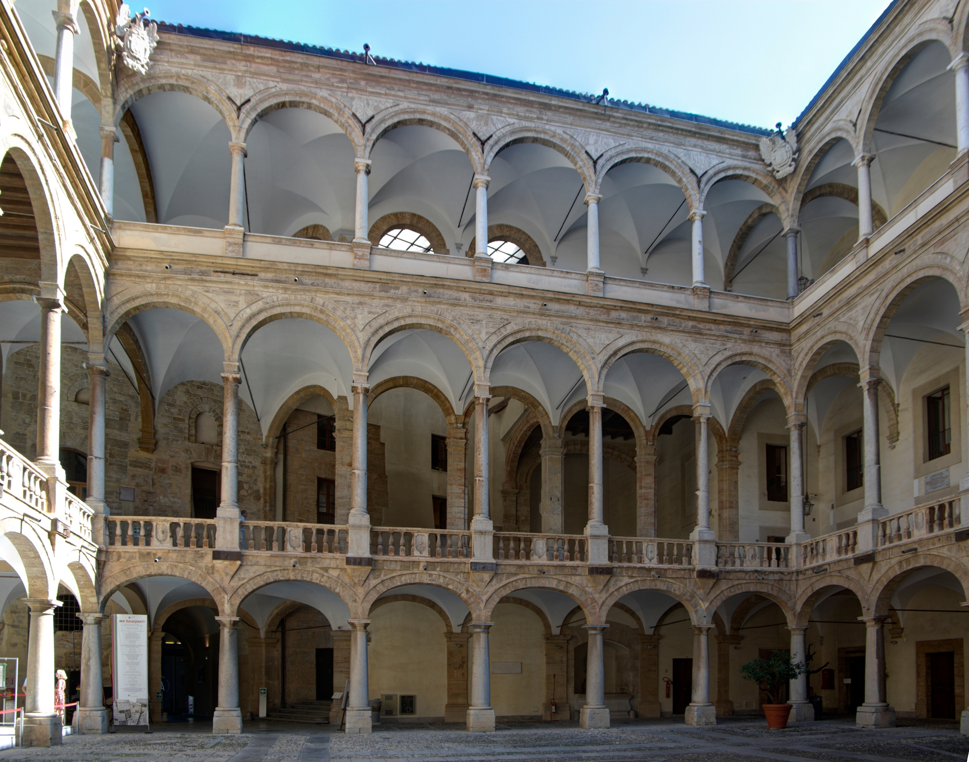 Italy, Sicily, Palermo, Palazzo dei Normanni, courtyard